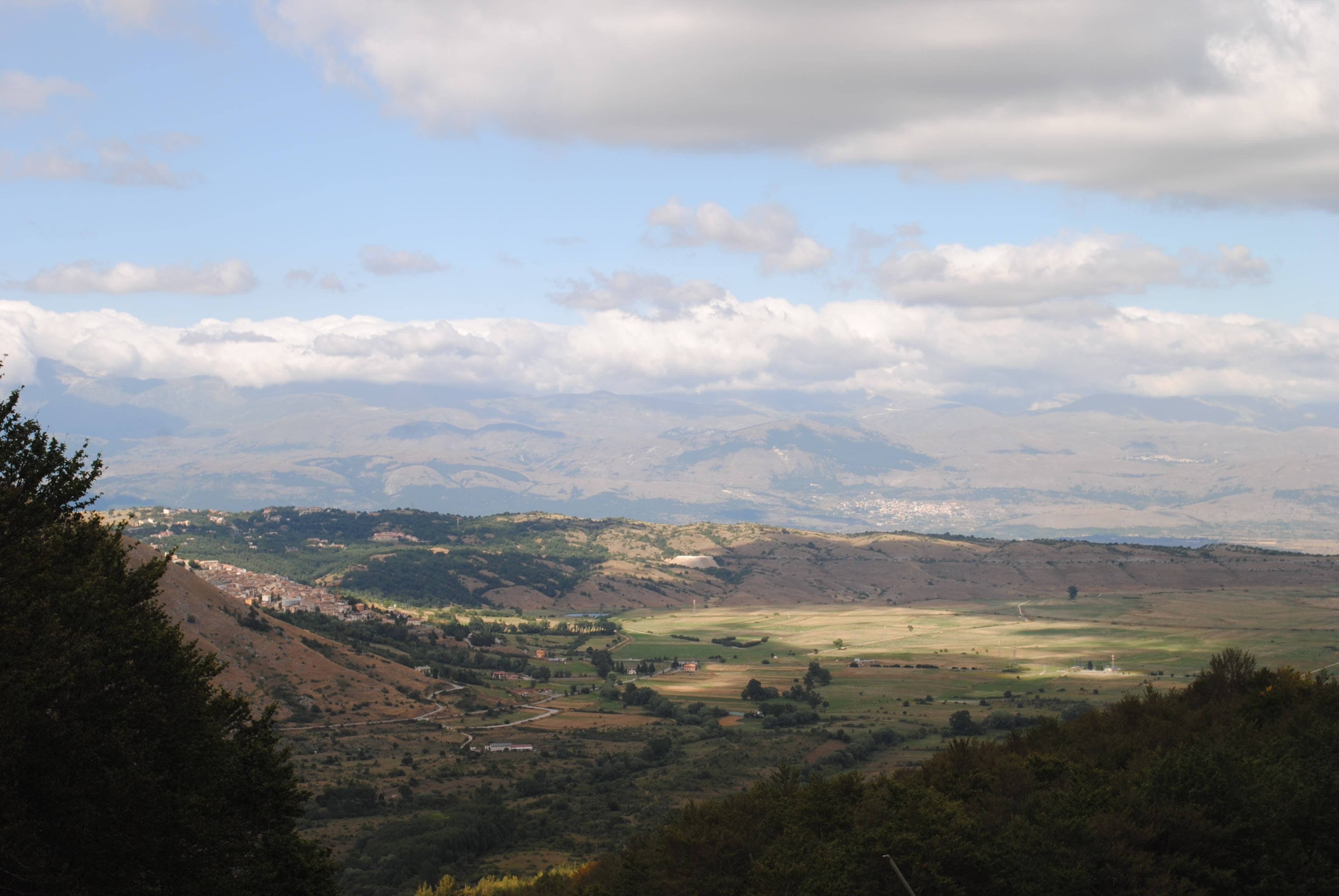 Campo Felice, Appennini mountains, Central Italy, Europe